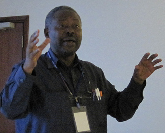 Professor Felix Chami, departement of Archaeology, University of Dar es Salaam in 2010 Nairobi Heritage & Technology Symposium